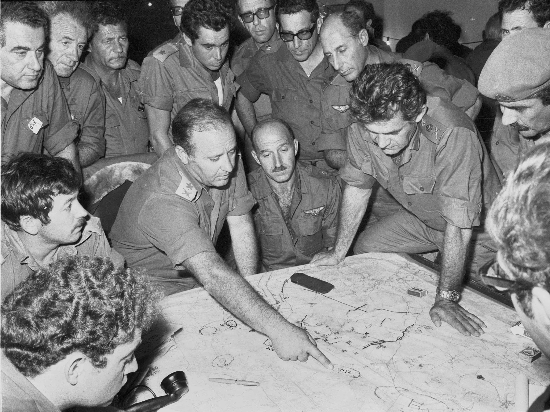 Israeli chief of staff in a meeting in Northern Command, during Yom Kippur War. People from right to left: Major Gadi Zohar, adjutant of the chief of staff (wearing glasses, seen in profile); Brigadier General Yekutiel Adam, deputy commander of Northern Command (with a moustache, wearing an army beret); chief of staff David Elazar (with both hands on table); Major General Eli Zeira, head of Military Intelligence Directorate; Major General Rechav'am Ze'evi, special assistant for the chief of staff (who returned to service as the war began) - standing, with dark glasses; Major General Mordechai Hod, former head of Israeli Air Force, an aerial warfare advisor for the head of Northern Command and the head of Southern Command (who returned to service as the war began) - mustached, sitting; Major General Yitzhak Hofi, head of Northern Command - sitting, pointing to a location on the map.